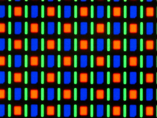 Photo taken with a 200x digital microscope by Matthew Rollings [1]. It shows the RGB arrangement of the pixels on Google's Nexus One AMOLED screen with PenTile matrix pixel arrangement.